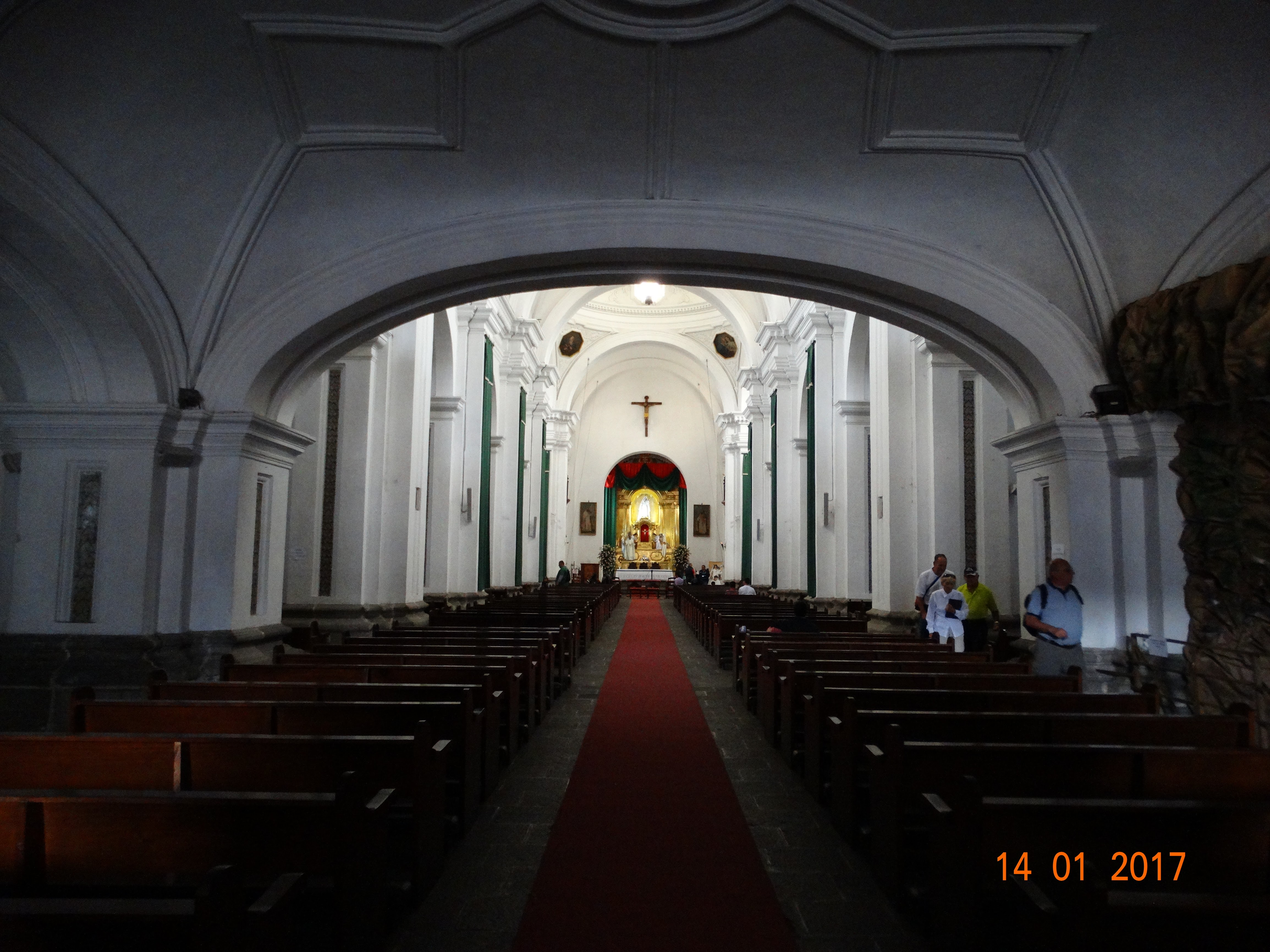 Iglesia de La Merced - Antiqua Guatemala